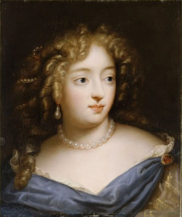 Françoise-Athénaïs de Rochechouart, marquise de Montespan (1640-1707).